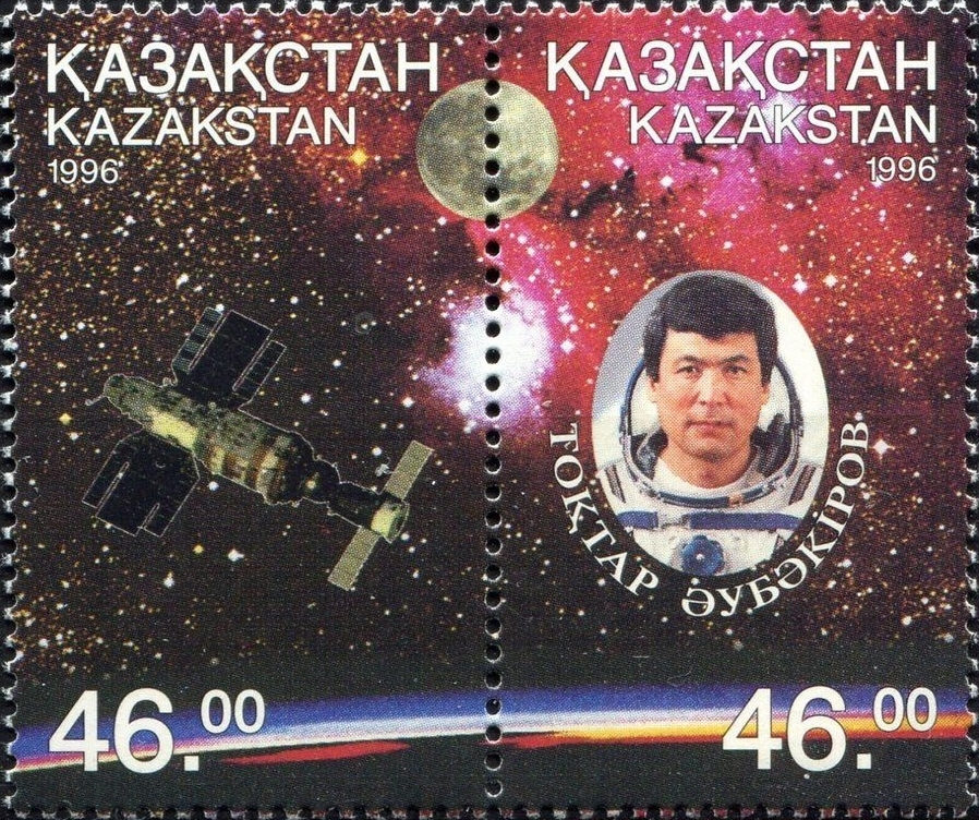 taken from - official web-site of kazakhstan postlal service